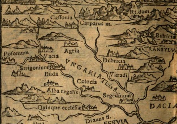 Map of Johannes Honterus